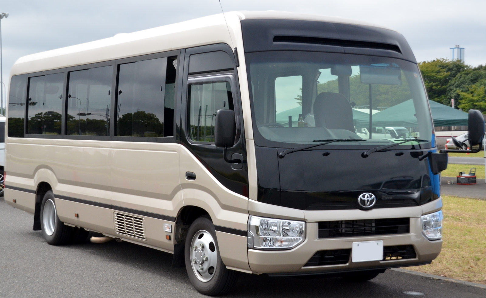 Toyota Coaster Long Body EX